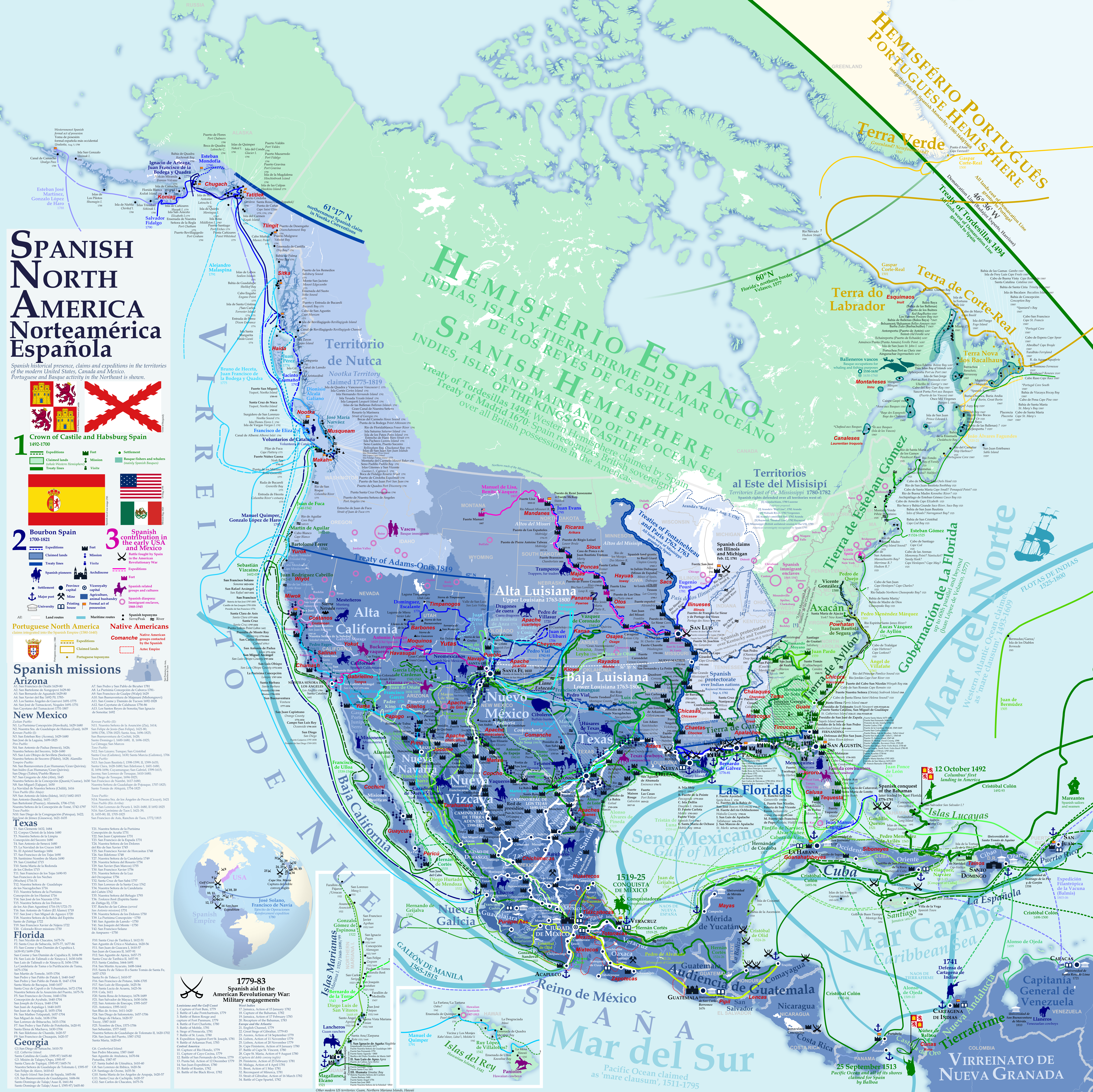 SPANISH NORTH AMERICA Spanish historical presence, claimed territories, points of interest and expeditions in the territories of the modern United States, Canada and Mexico. Main features of Spanish Central America and the Spanish Caribbean are also displayed. Portuguese and Basque claims and activity in the Northeast is shown, as they were included in the Spanish Monarchy imperial and political structure at some point. Sources in This is a PNG version of